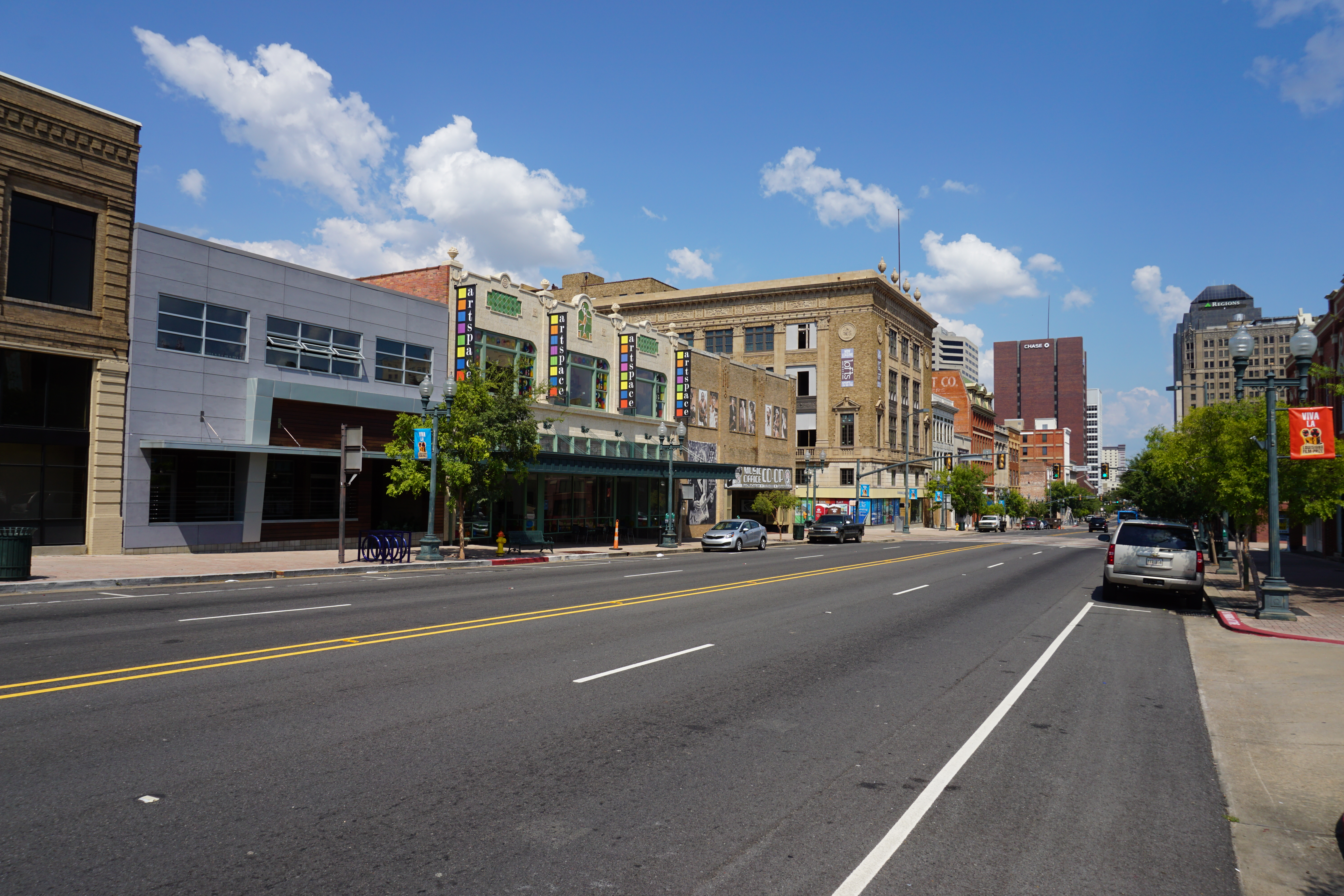 Texas Street in Shreveport, Louisiana (United States).